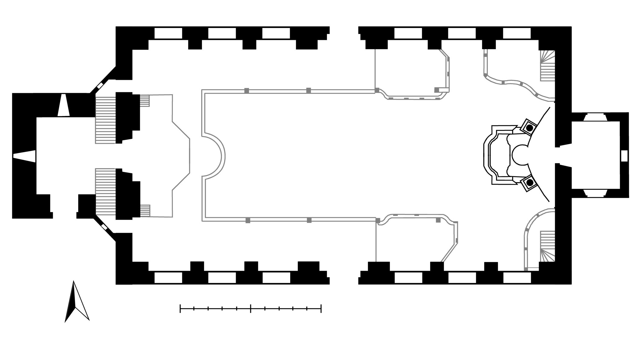 Floor plan of the St. Lucas church in Scheeßel